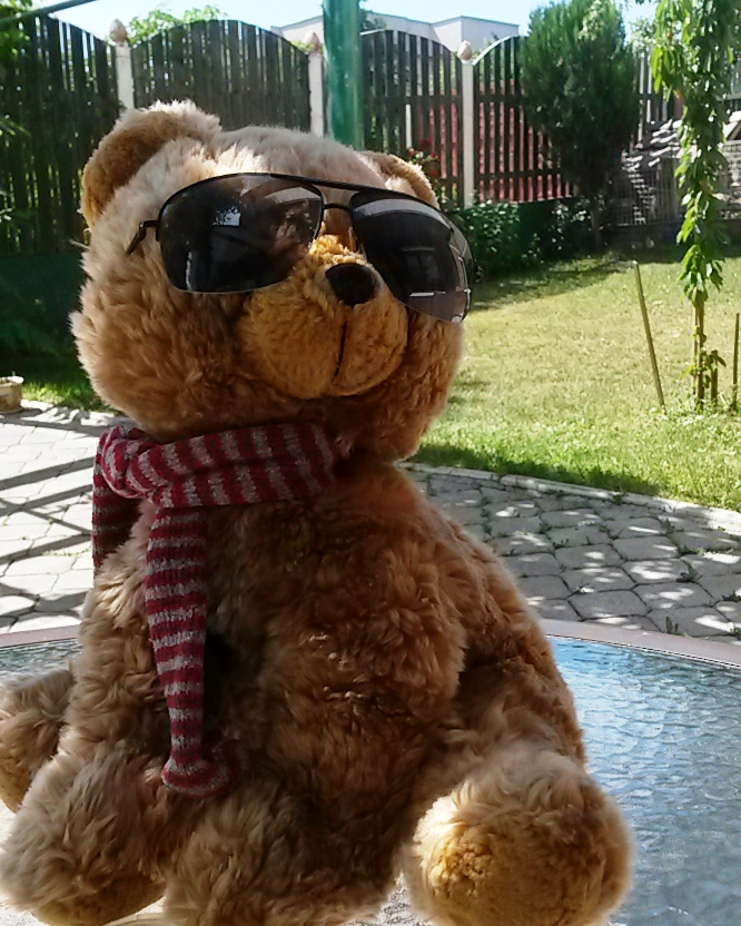 Syze dielli